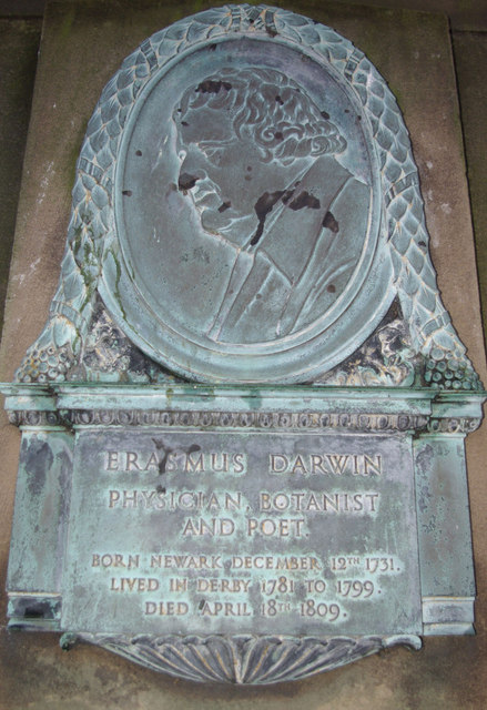 Memorial to Erasmus Darwin This bas-relief sculpture of Erasmus Darwin is one of four on Exeter Bridge depicting famous Derbeians. Erasmus Darwin, the grandfather of Charles Darwin, practised medicine in Derby but was also interested in all kinds of scientific investigation. He can be credited with the early ideas that were developed by his grandson into the theory of evolution. The date of his death on the plaque is wrong; he died in 1802 at the age of 70. A fuller biography is given here: .